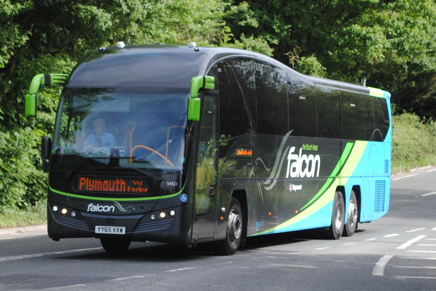 54321 (Thunderbirds are go) - YY65 VXW Volvo B11RT Plaxton Elite. Seen on A38 at Lulsgate near Bristol Airport.